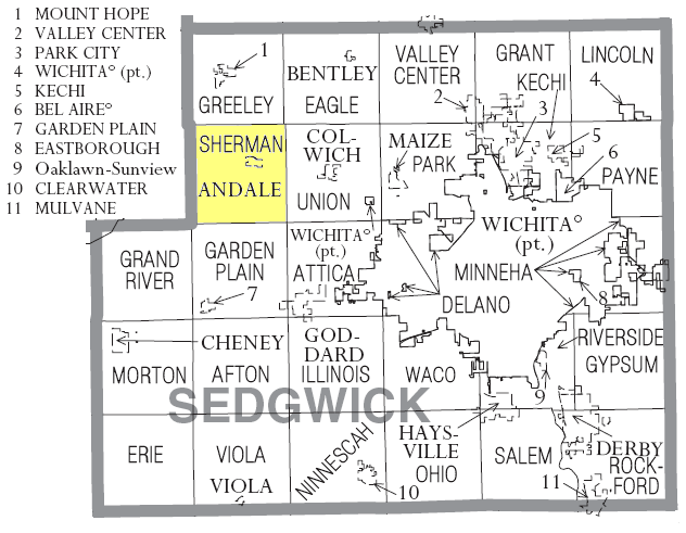 Map of Sedgwick County, Kansas highlighting Sherman Township